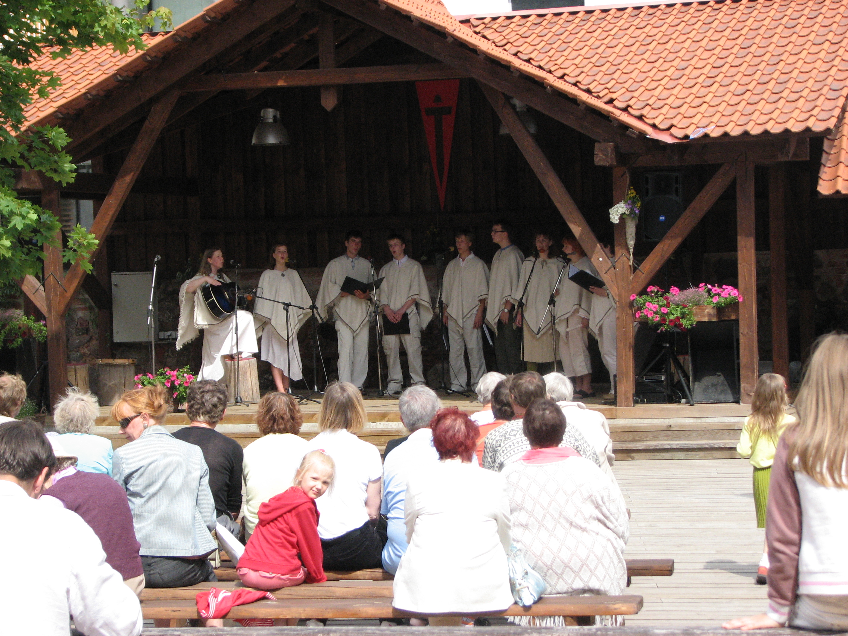 Hanseatic Days of Tartu 2007, Estonia